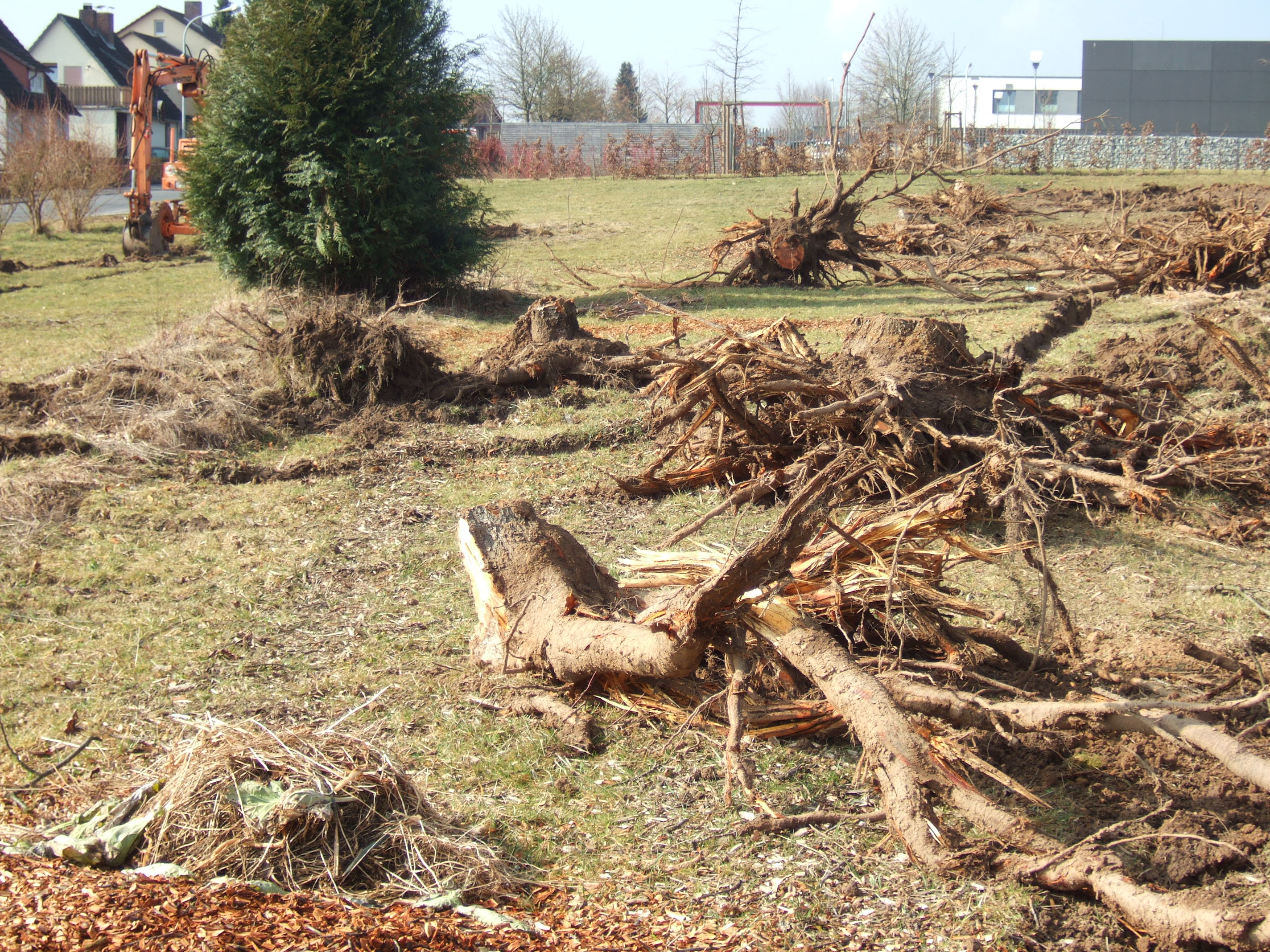 Clearing of cherry trees